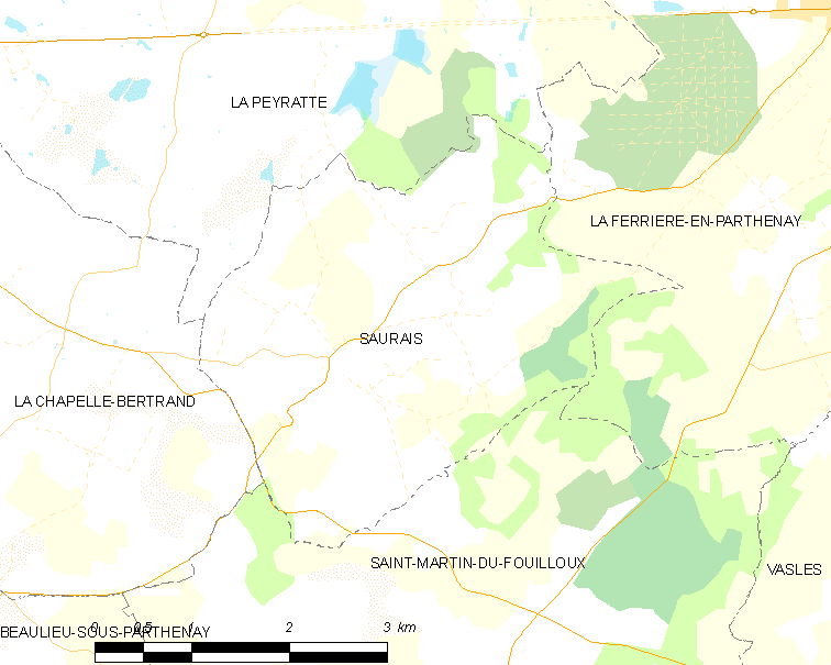 Map of French municipality Saurais